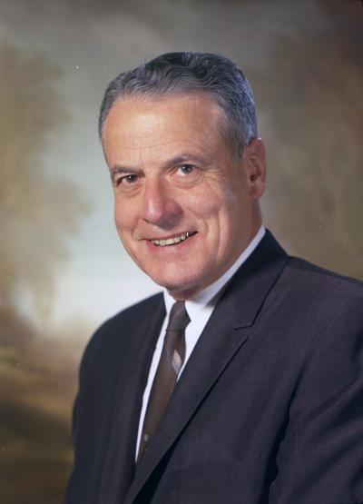 Representative George W. Clarke, 1967